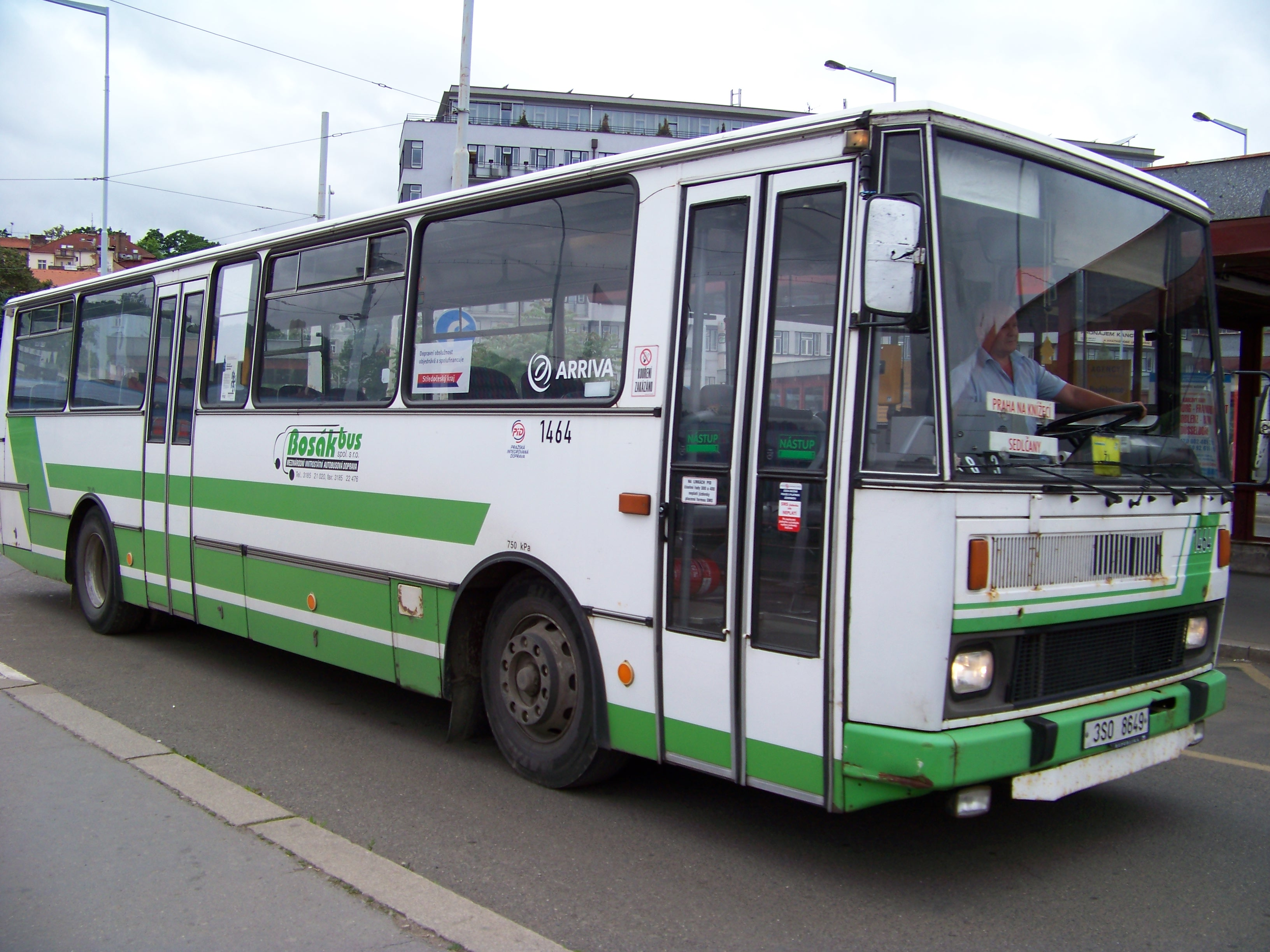 Smíchov, Prague, the Czech Republic. Na Knížecí bus station. A bus Karosa of Bosák Bus. - Google Maps - Google Earth